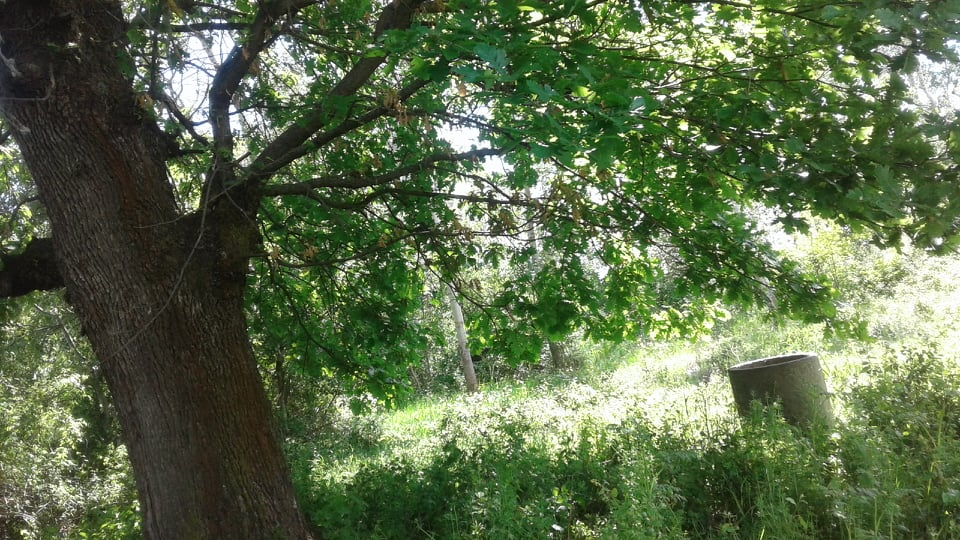 Oak Tree (Quercus) in Bukosh - Vushtrri